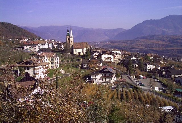 St. Nikolaus bei Kaltern (Südtirol), aufgenommen im November 2009